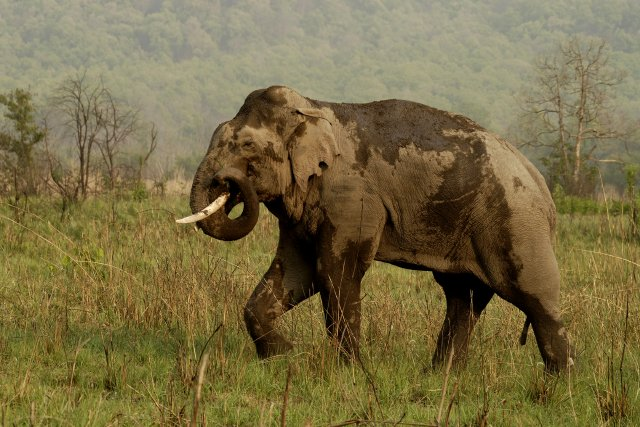 Asian Elephant at Corbett National Park